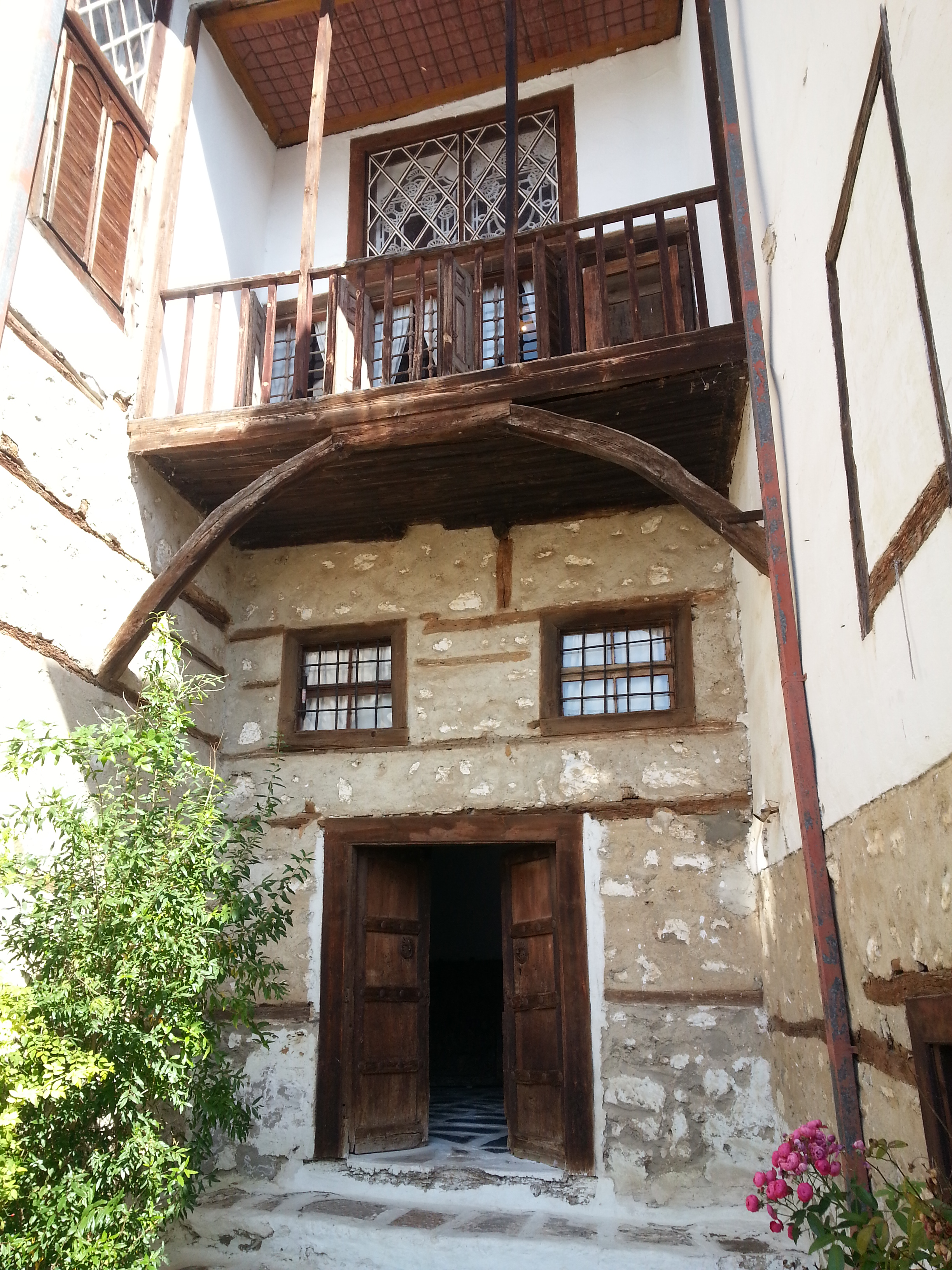 Kastoria Folklore Museum yard.